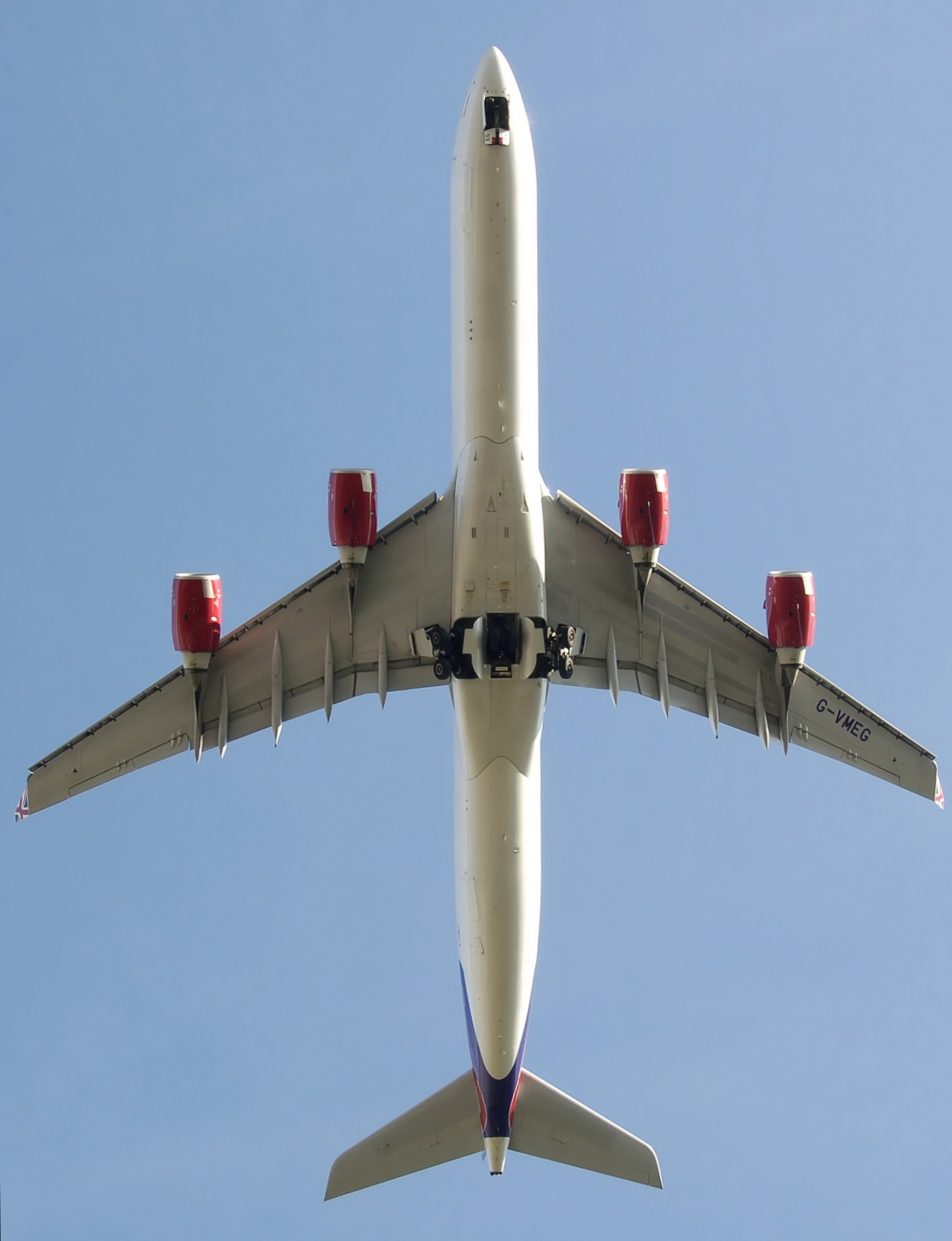 A Virgin Atlantic Airbus A340-600 takes off from London Heathrow Airport, England. The undercarriages are still retracting.